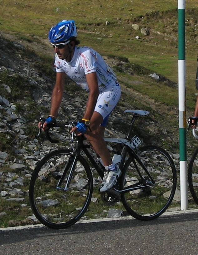 Ezequiel Mosquera, 2008 Vuelta a España, 8th stage, Port de la Bonaigua, Spain.